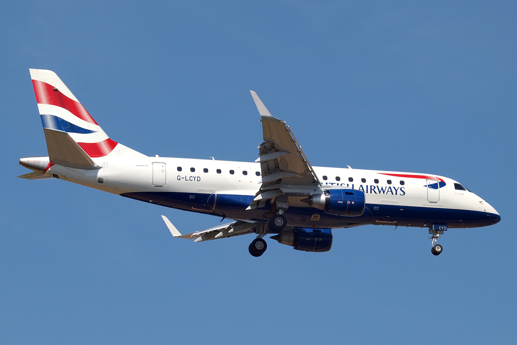 BA CityFlyer Embraer ERJ-170ST (G-LCYD) at Cagliari-Elmas Airport.